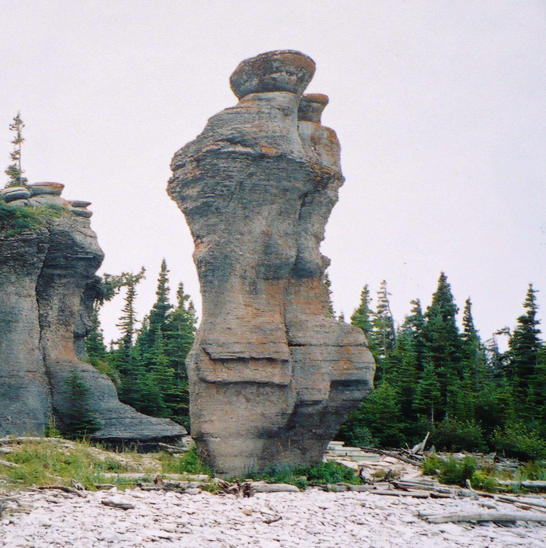 La Grande Dame limestone monolith at Mingan Archipelago National Park Reserve, Quebec, Canada